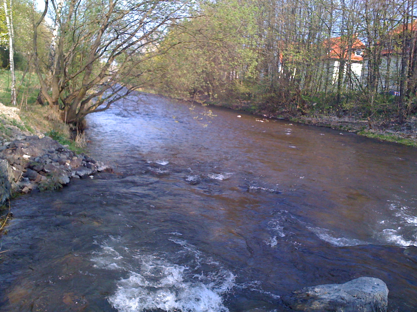 Part of the Innerste-River in Langelsheim